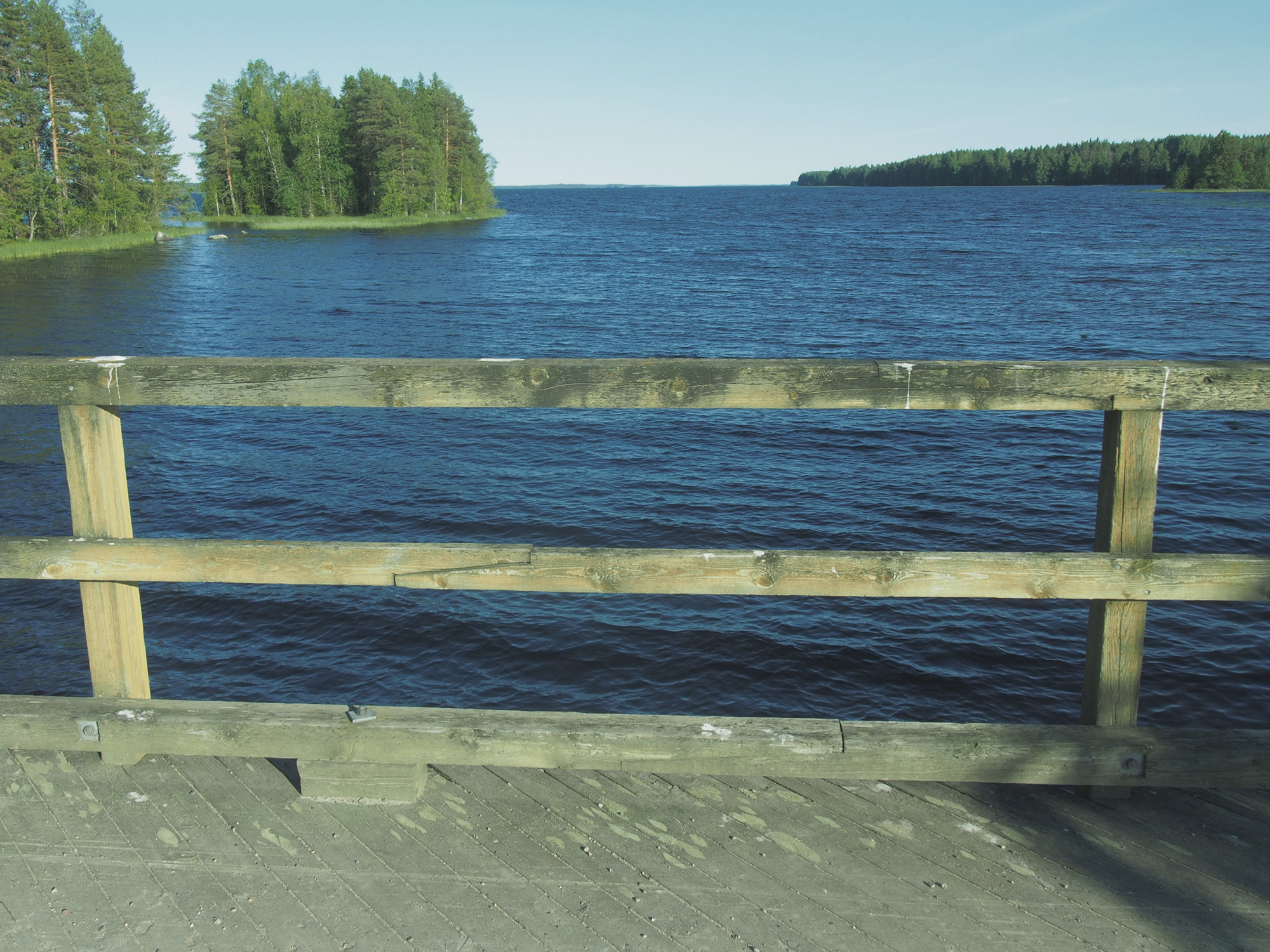 Lake Nilakka in Keitele, Northern Savonia, Finland.